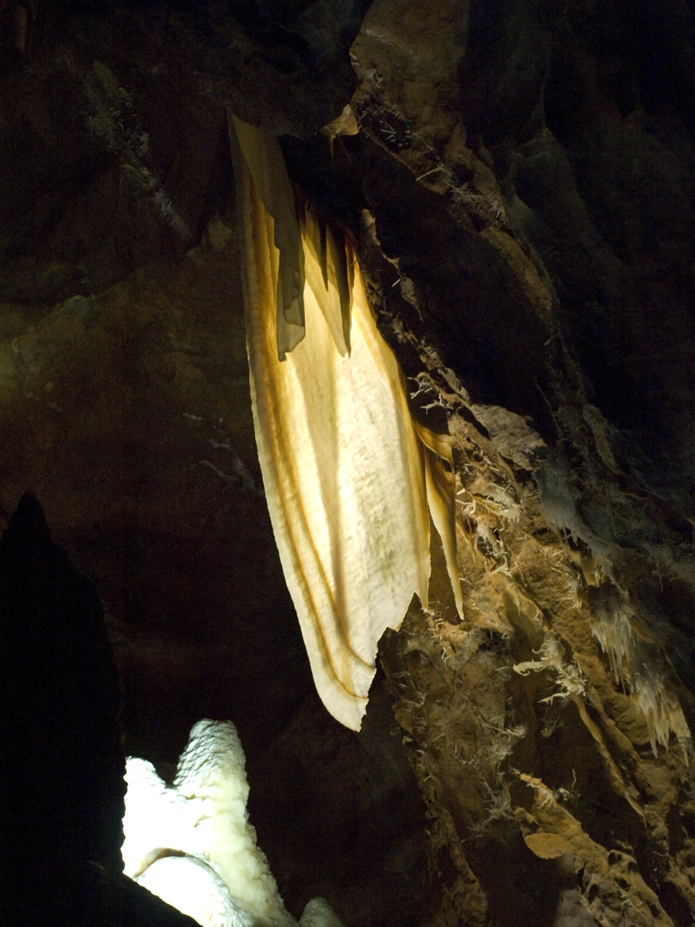 The Angel's Wing in the Jenolan Caves Australia